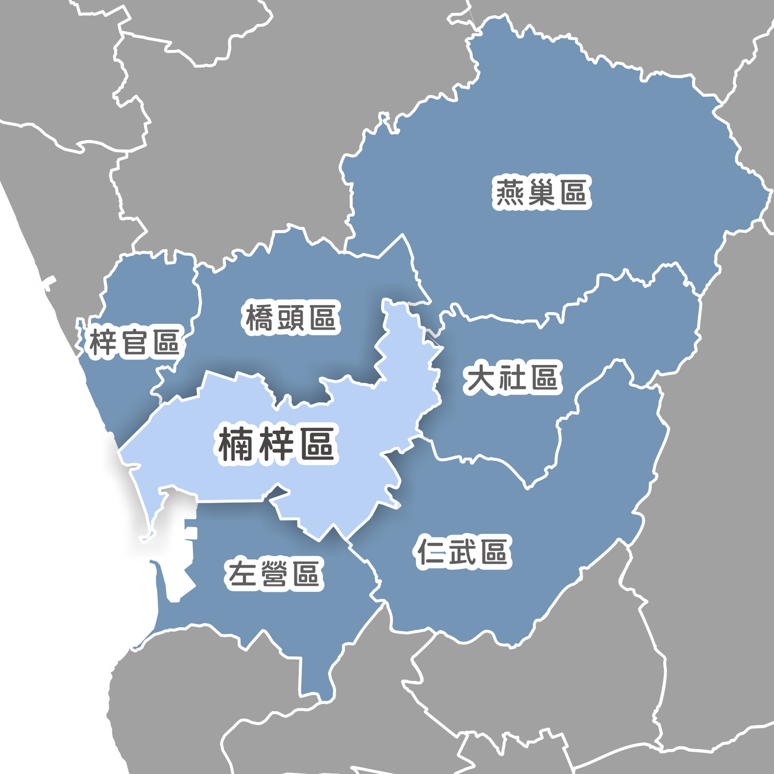 nanzih